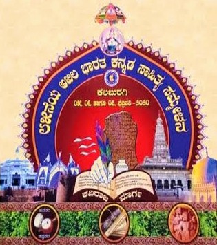 Kannada sahitya sammelana at kalburgi